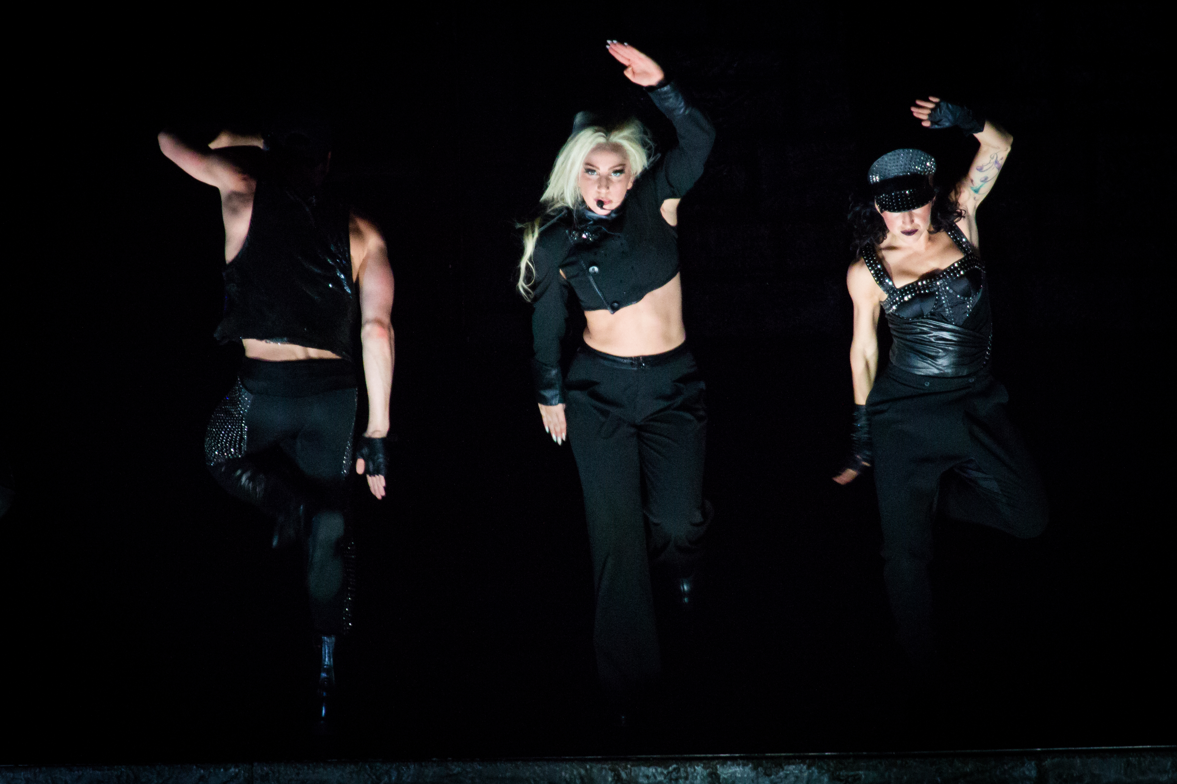 Lady Gaga performing "Scheiße" on The Born This Way Ball Tour in Manchester, UK.